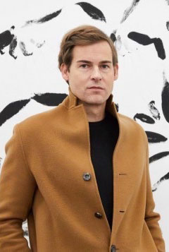 Ralf Ziervogel 2019, Deichtorhallen, Hamburg